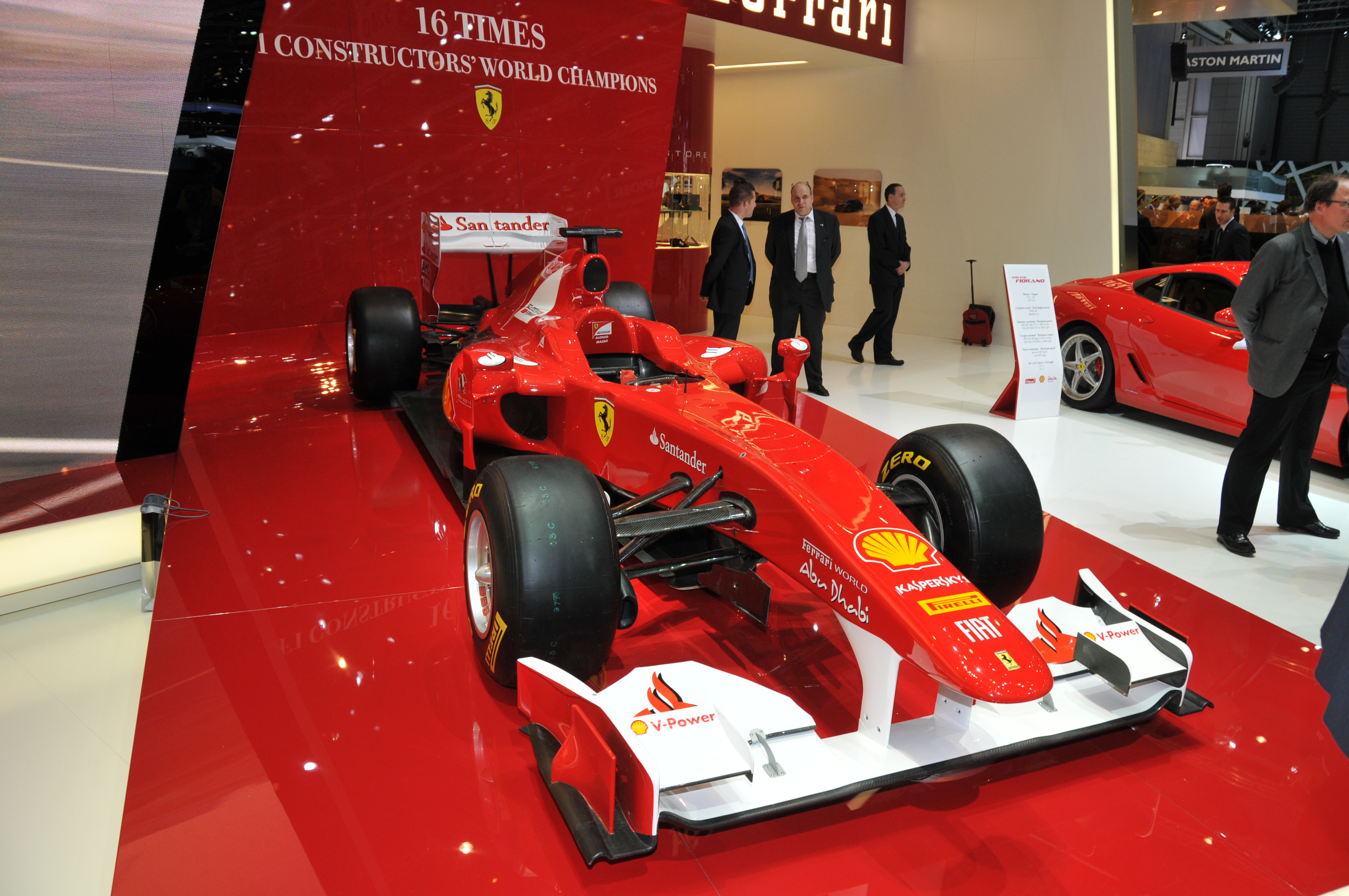 Ferrari 150th Italia at the Geneva Motor Show 2011. More Info and pictures